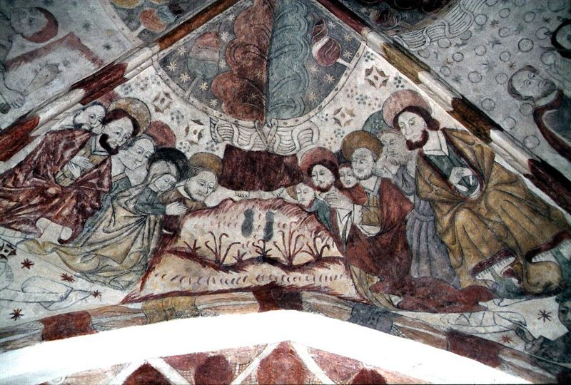 Frescos in Bellinge Kirke